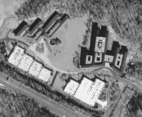 Aerial view of the Becton Dickinson headquarters in Franklin Lakes, New Jersey.